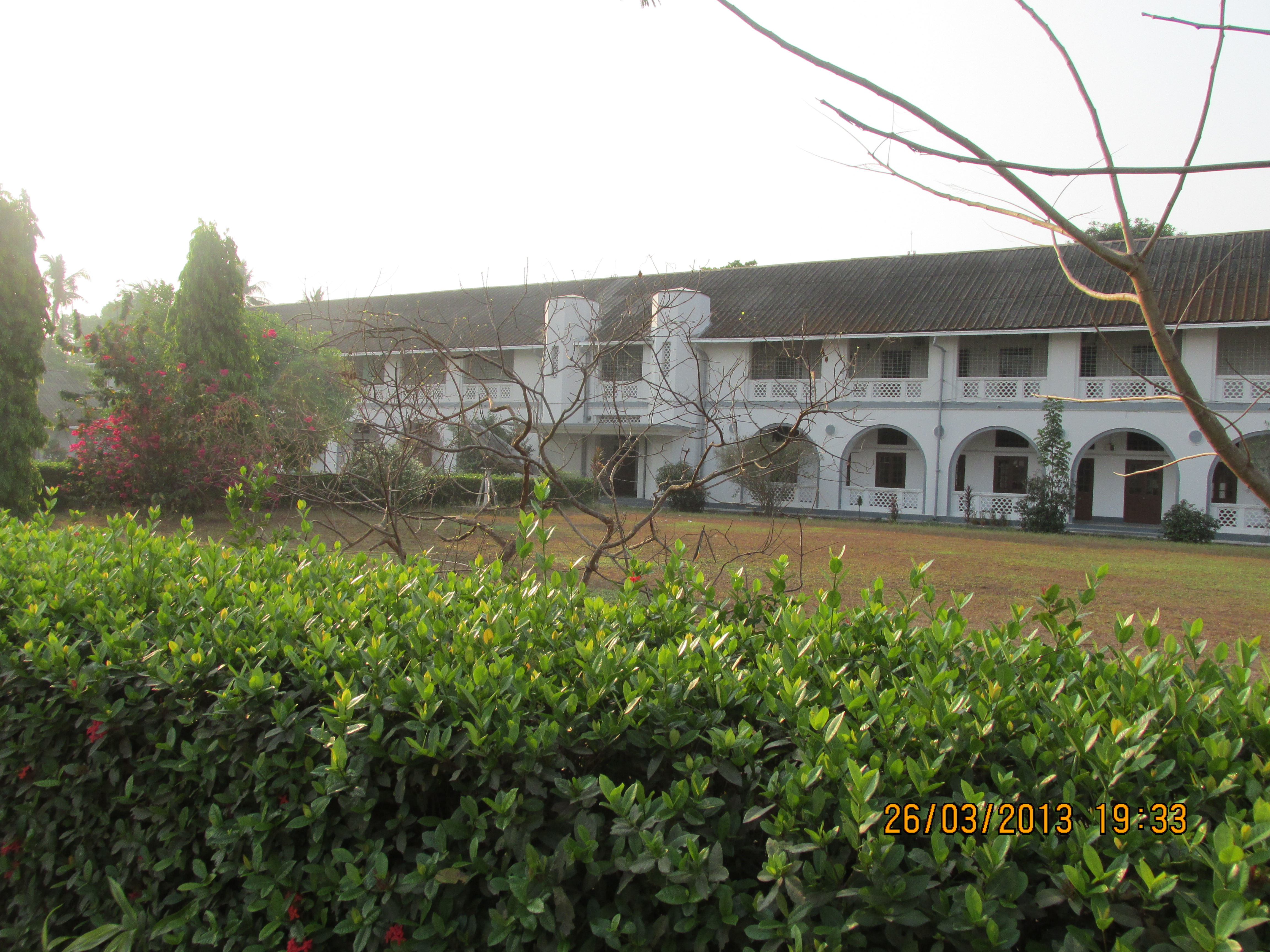 The Yangon University of Education မြန်မာဘာသာ: ရန်ကုန်ပညာ​ရေးတက္ကသိုလ်